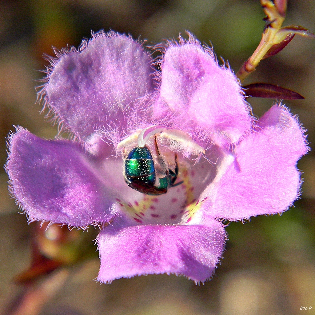 A metallic blue halictid bee, abdomen dusted with white pollen, explores a false foxglove near the willow marsh at Juno Dunes Natural Area (north), Palm Beach County, Florida. (This is a skipped over photo from archive...it's been dark, overcast & gloomy here for days, like living in Mordor but less interesting)